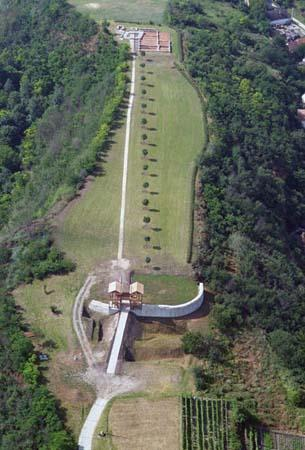 Aerial archaelogy